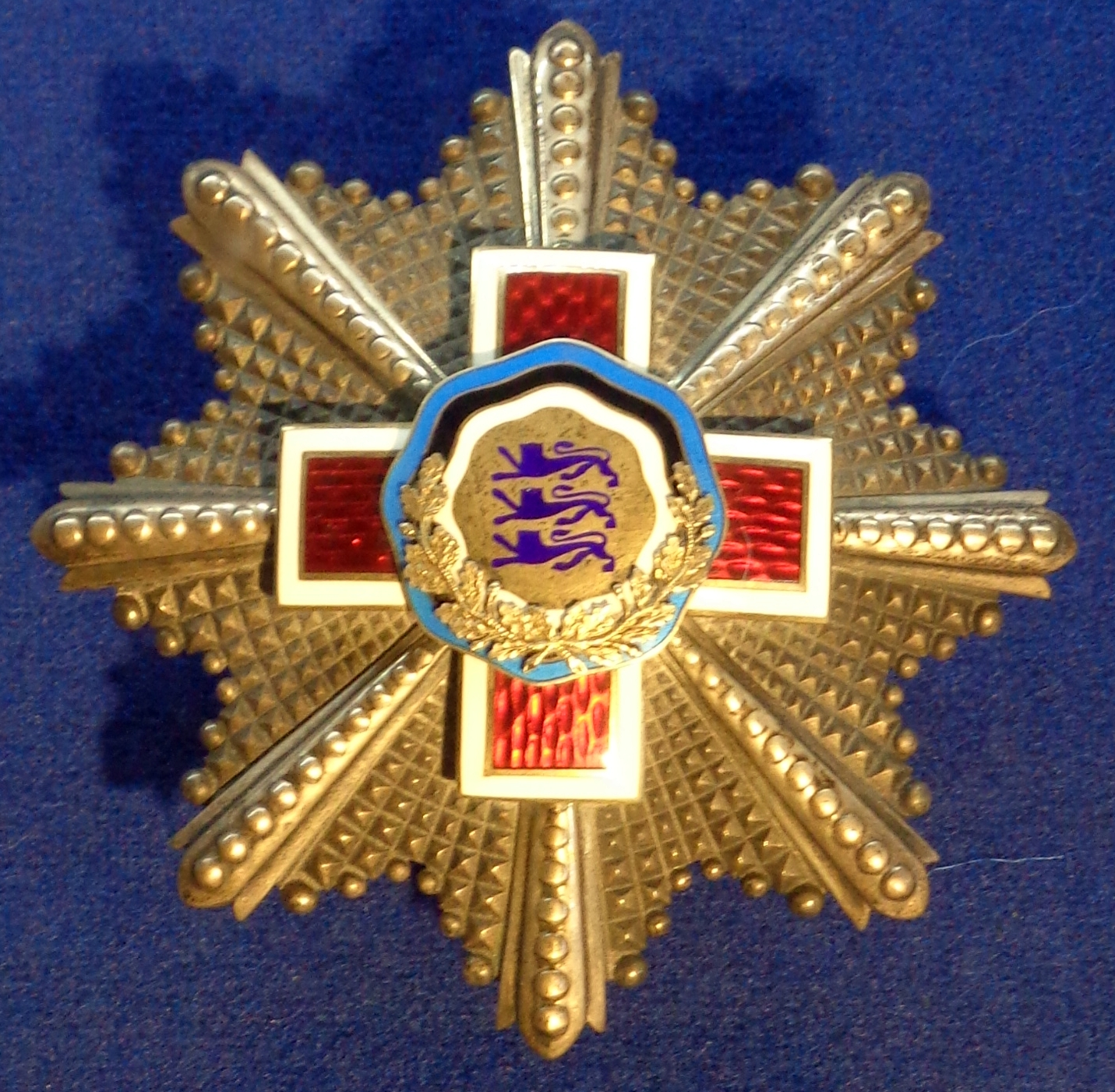 Order of the Estonian Red Cross 1st class, star, before 1940. Estonia. The exhibition of the Tallinn Museum of Orders of Knighthood, Estonia.